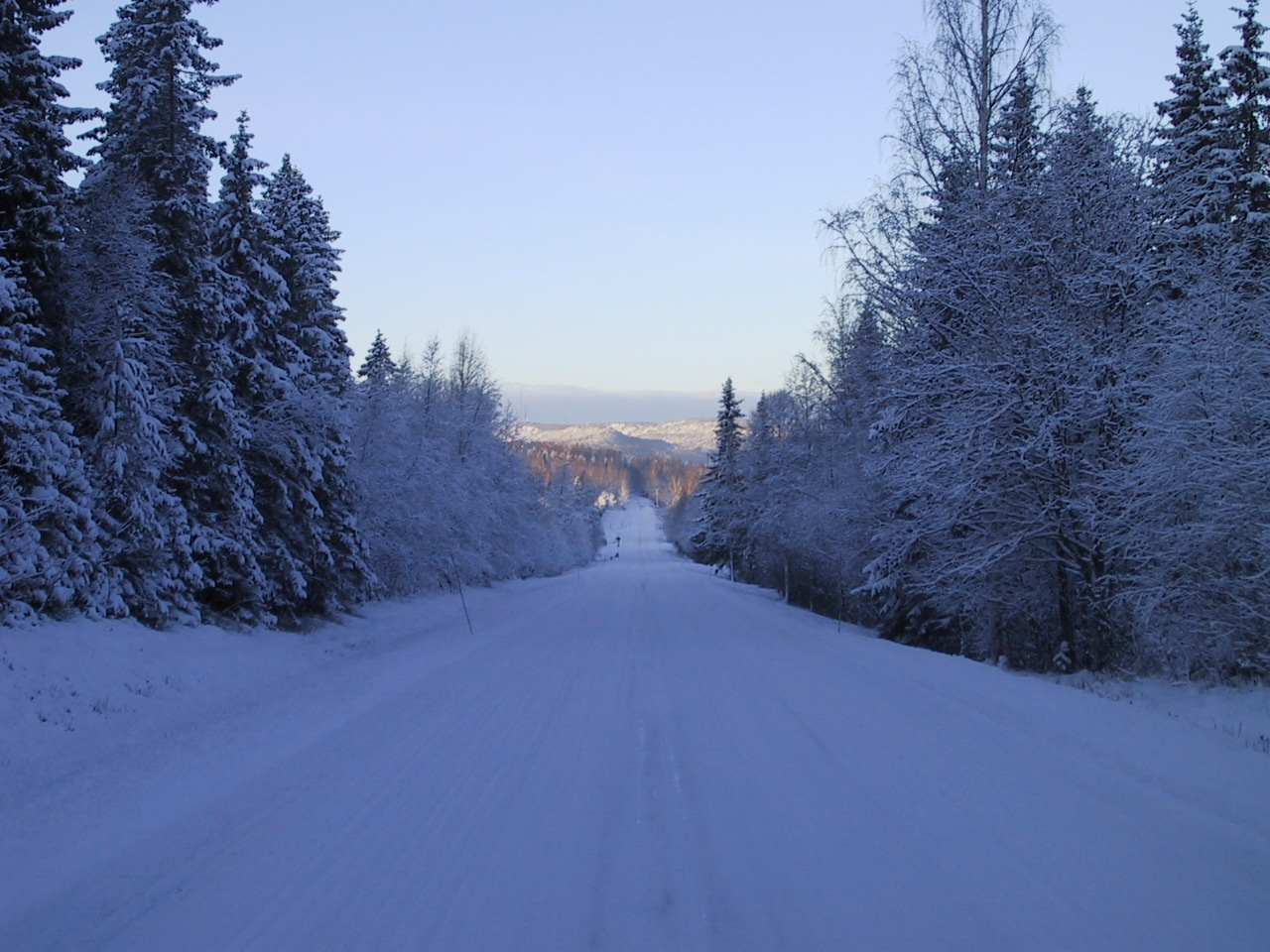 Wintery condition road in northern Sweden.